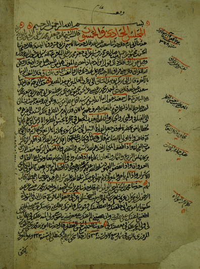 Manuscript by "Sheikh Hur-Amuli"